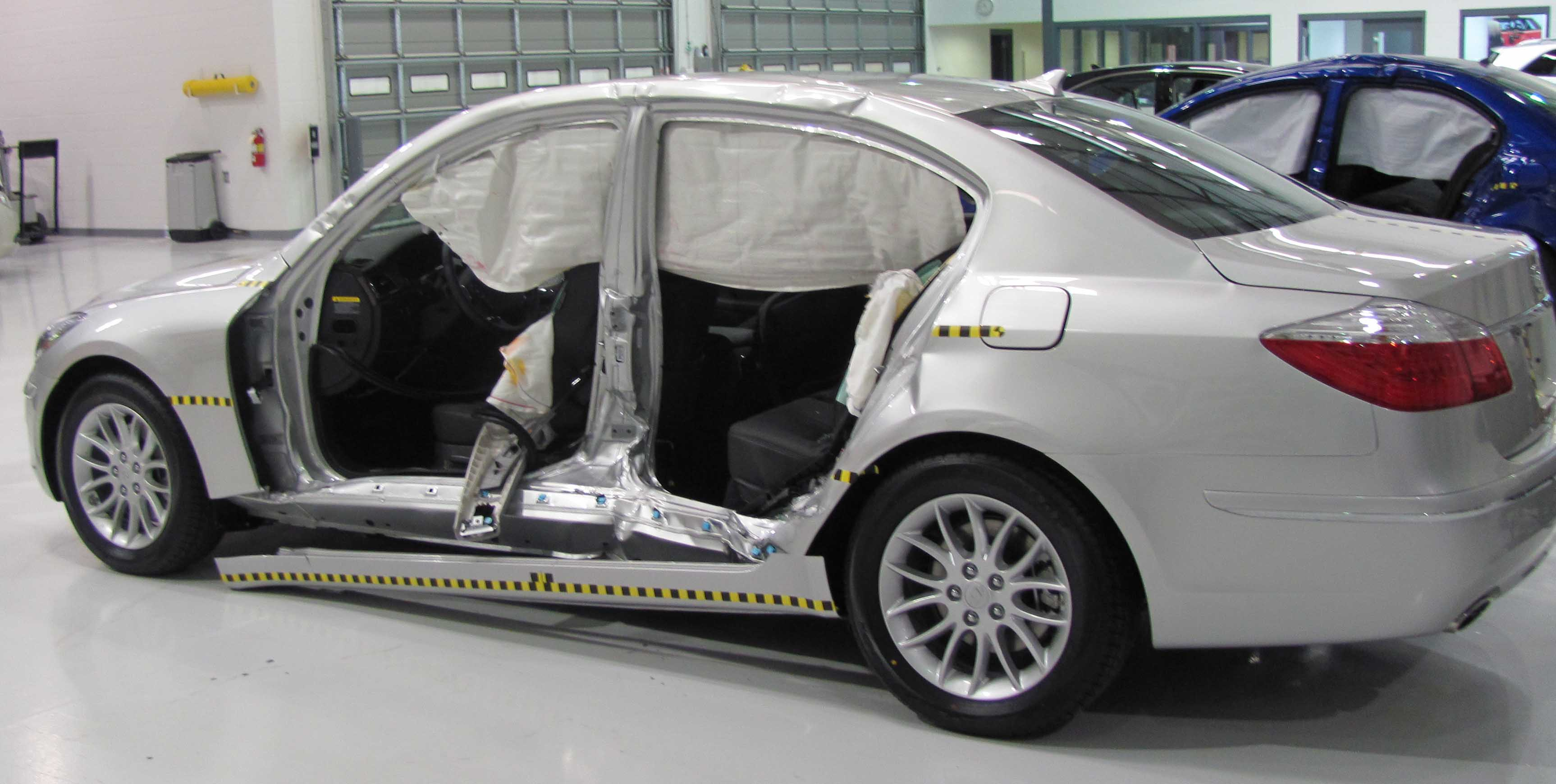 Crash-tested 2010 Hyundai Genesis photographed at the Insurance Institute for Highway Safety Vehicle Research Center. IIHS crash test page